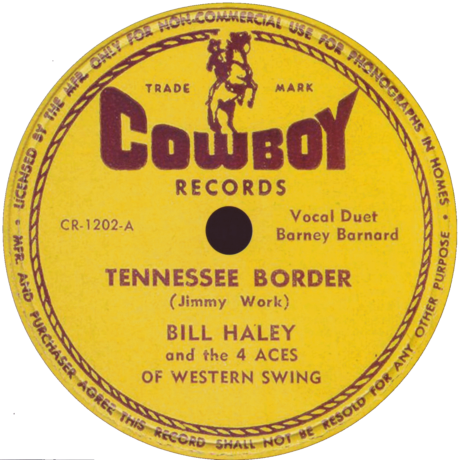 Tennessee Border (written by Jimmy Work), performed by Bill Haley and his Four Aces of Western Swing. Vocals are provided by Barney Barnard. Cowboy Records CR-1202-A, 1949.